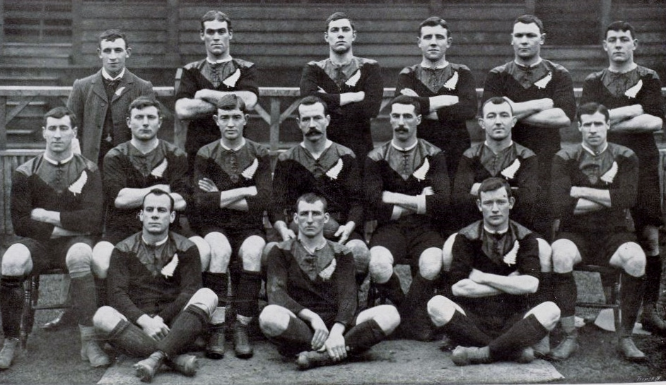 Cropped and adjusted version of File:Original All Blacks' team for Wales.jpg From the description with the original: The New Zealand national rugby union team that faced Wales at Cardiff in 1905. Caption reads: The New Zealand team beaten by Wales.Top row: J. W. Stead, C. Seeling, R. G. Deans, J. O'Sullivan, F. Newton, A. McDonald.Second row: Fred Roberts, F. Glasgow, D. McGregor, Dave Gallaher, G. Gillett. G. Tyler, W. J. Wallace. Bottom row: H. J. Mynott, J. Hunter, S. Casey.